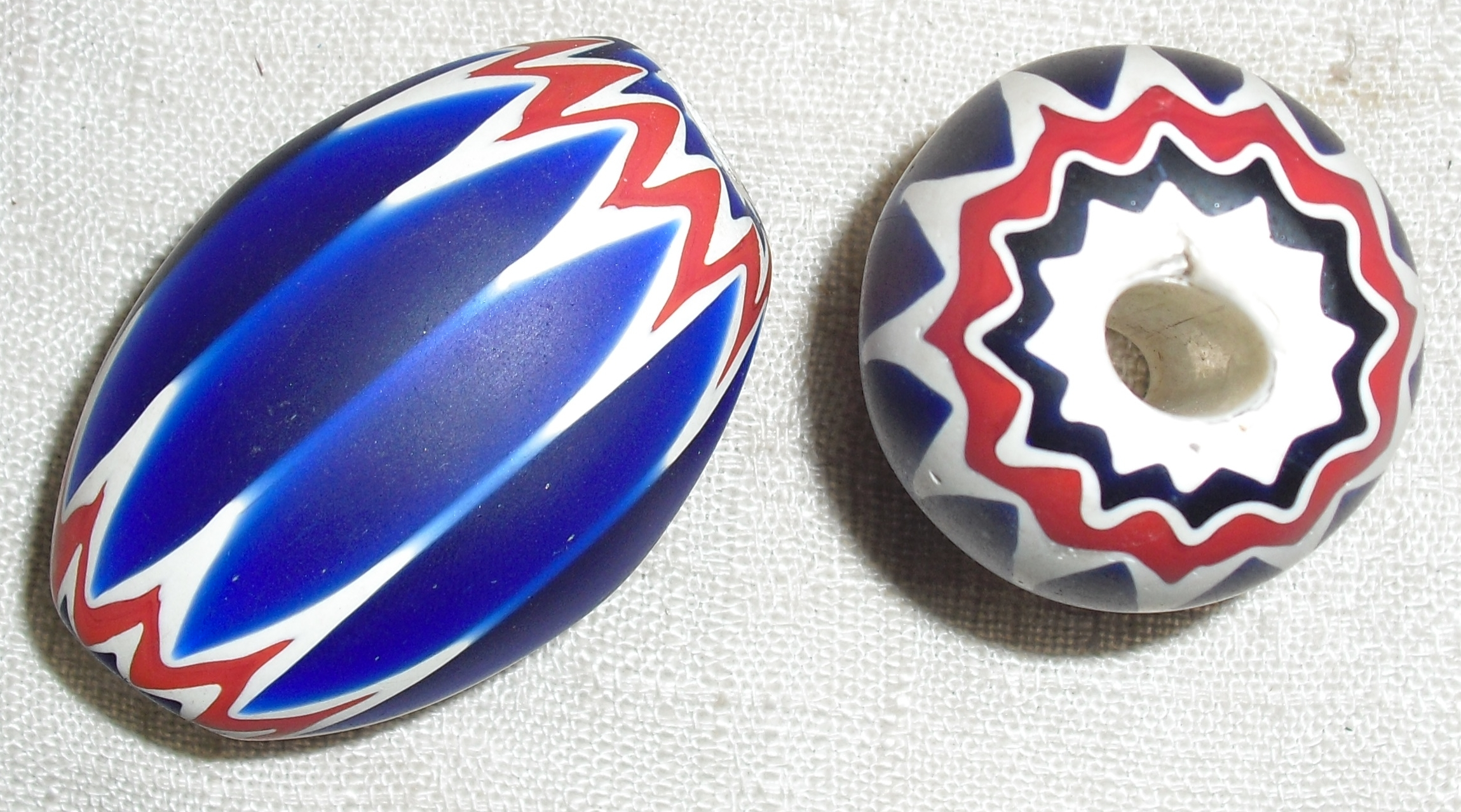 New chevron beads made with the technique developed by Venetian glass makers. Chevron beads were highly valued and used as trade beads during the trans-Atlantic slave trade in West Africa. Picture is taken in Suntrade Ltd., Accra, Ghana.